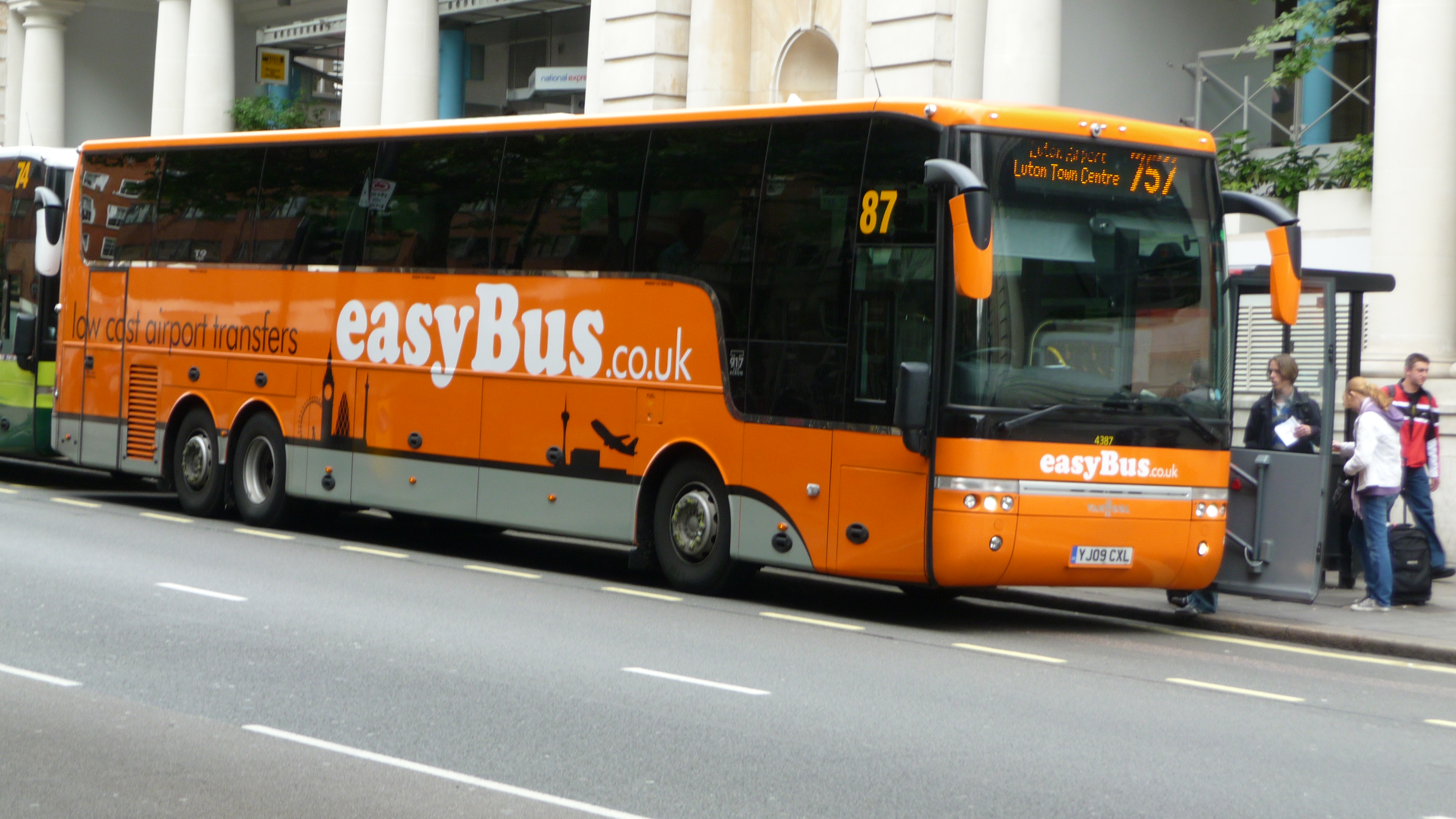 Arriva The Shires 4387 (YJ09 CXL), a Van Hool T917 Acron, in Buckingham Place Road, Victoria, London, on route 757. Green Line route 757 was run in a partnership with easyBus, and some of the coaches used on the route carried easyBus livery.